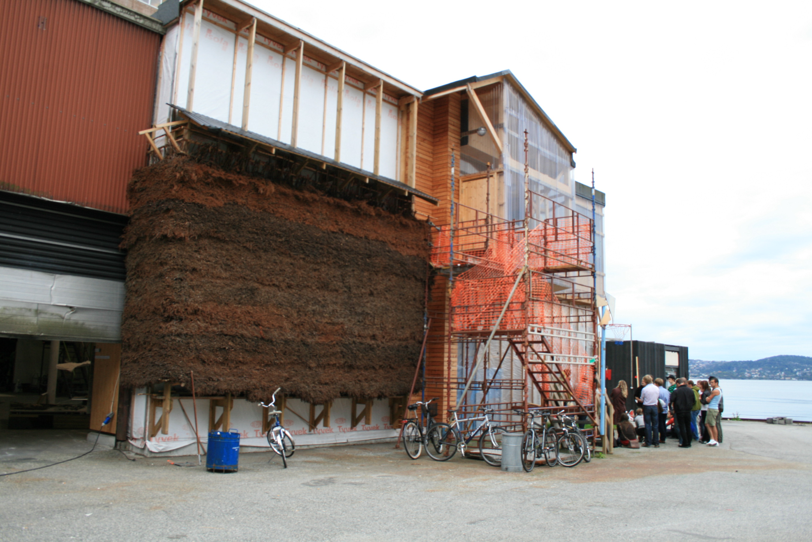 Bergen Arkitekt Skole in the late summer